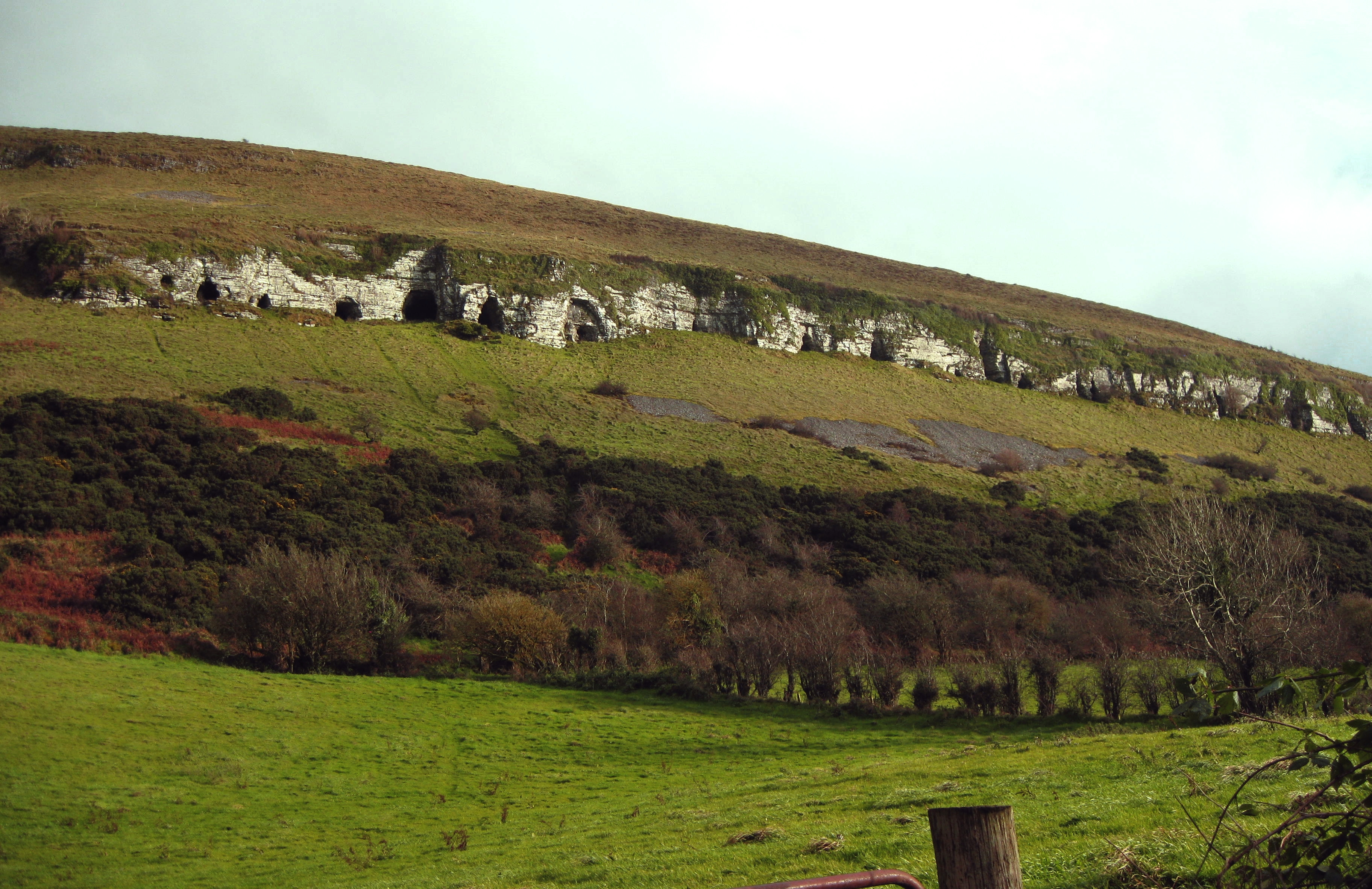 A shot of the famous Irish Caves of Keash, Co. Sligo